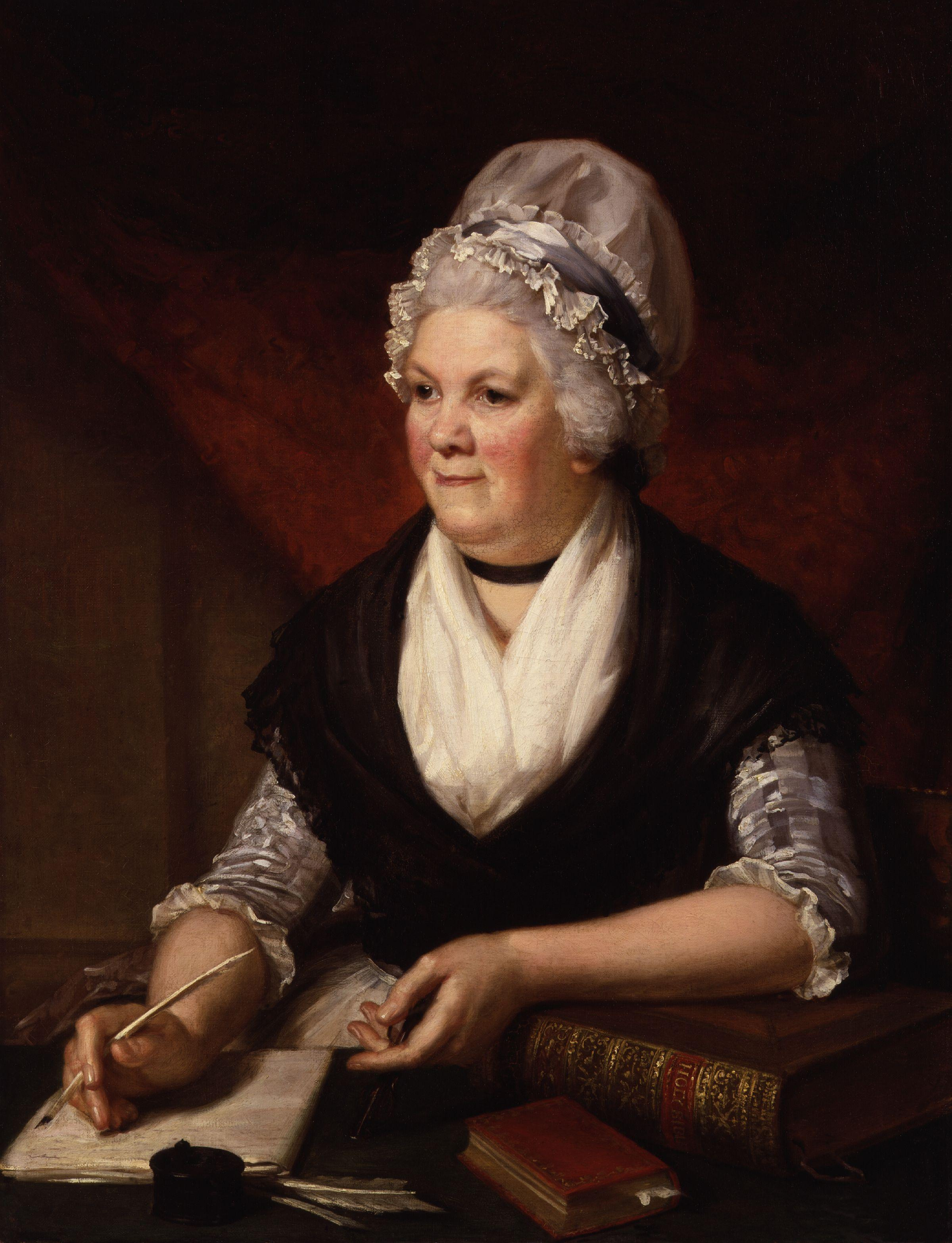 Sarah Trimmer, by Henry Howard (died 1847). Sarah Trimmer (née Kirby) (6 January 1741 – 15 December 1810) was a noted writer and critic of British children's literature in the eighteenth century.